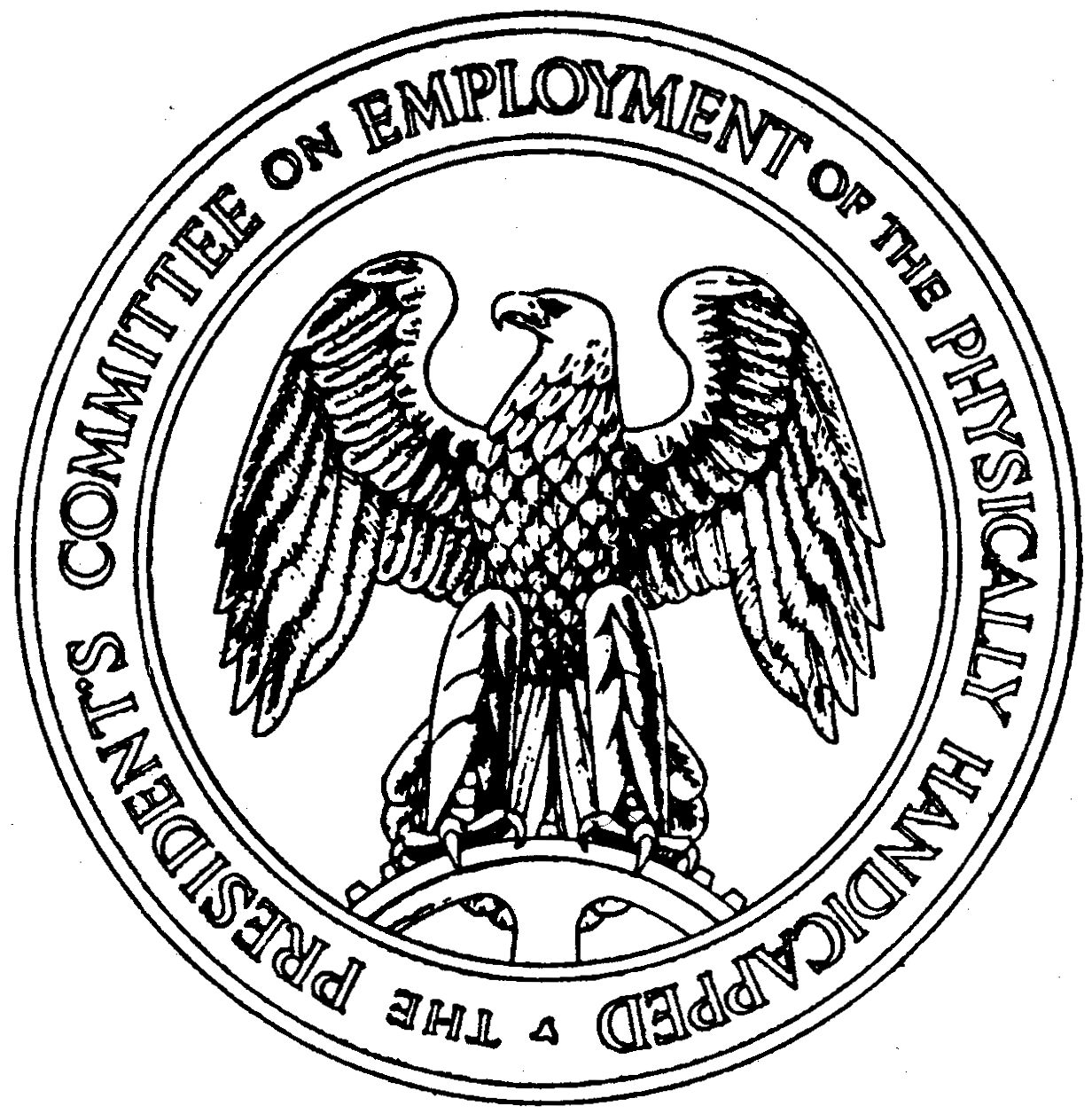 Illustration of the seal of the U.S. President's Committee on Employment of the Physically Handicapped from Executive Order 10555 (which defined the seal). The design is described there as: On a light blue disk an American bald eagle with wings displayed and inverted, standing upon a spur gear issuing from base all proper. On an encircling dark blue band edged with gold the inscription THE PRESIDENT'S COMMITTEE ON EMPLOYMENT OF THE PHYSICALLY HANDICAPPED." in gold letters. The Committee was succeeded by the President's Committee on Employment of People With Disabilities, which in turn was made into the Office of Disability Employment Policy, an agency in the Department of Labor, in 2001.